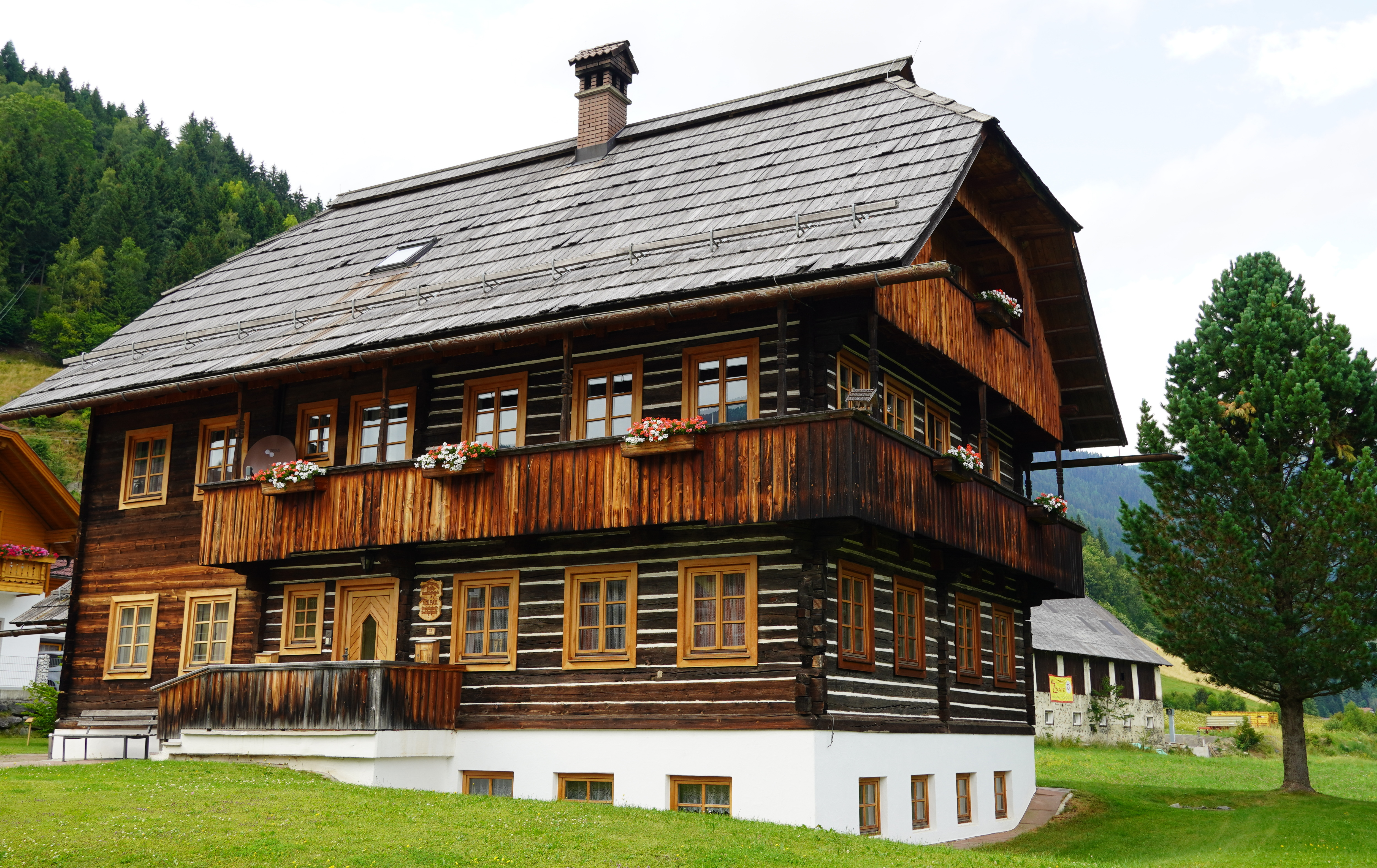 Rectory of the Lutheran parish community at Wiedweg #12, municipality Reichenau, district Feldkirchen, Carinthia / Austria / EU